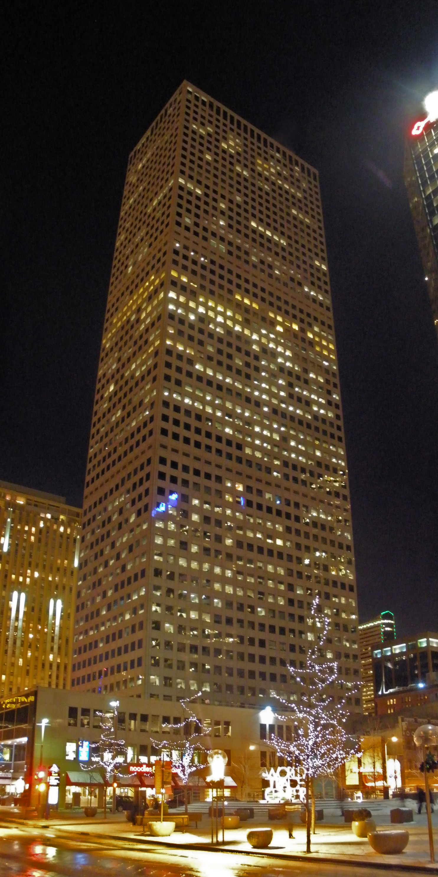 The Republic Plaza building on the 16th Street Mall, Denver, the tallest building in Colorado. Panorama from two images.